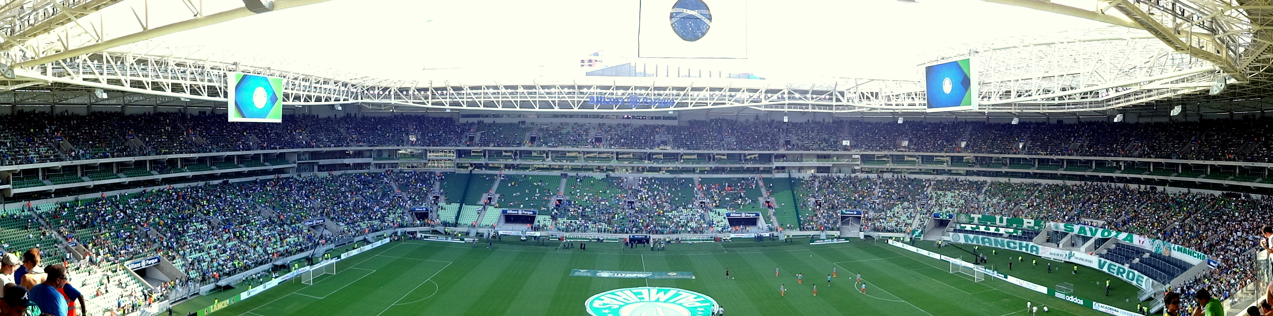 Allianz Parque is a multipurpose stadium in São Paulo, Brazil, built to receive shows, concerts, corporate events and especially football matches of Sociedade Esportiva Palmeiras, the site owner.